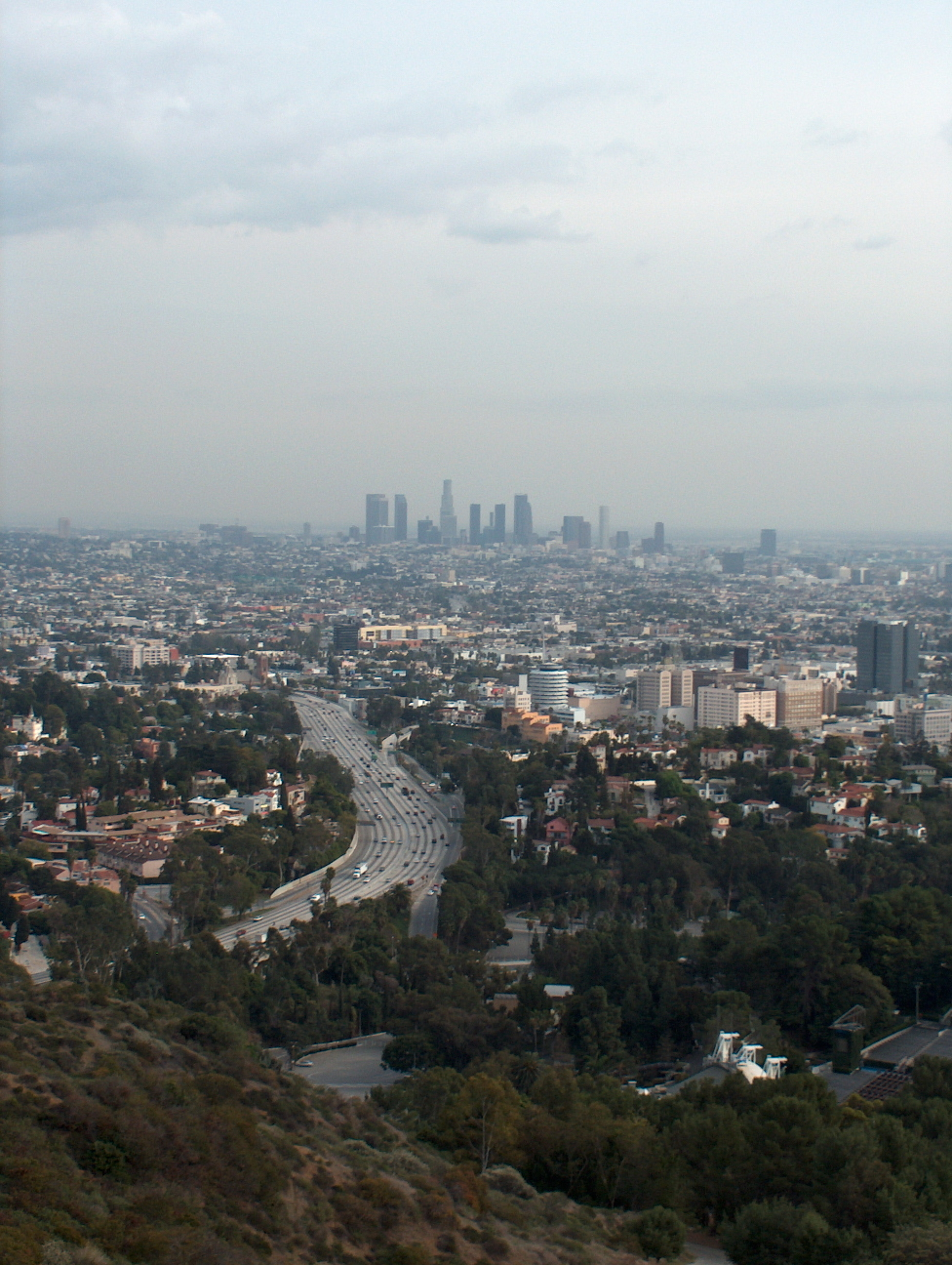 Los Angeles from Mulholland drive View of Hollywood and the Hollywood Freeway, with downtown LA skyline in the distance; the Hollywood Bowl is visible at lower right.